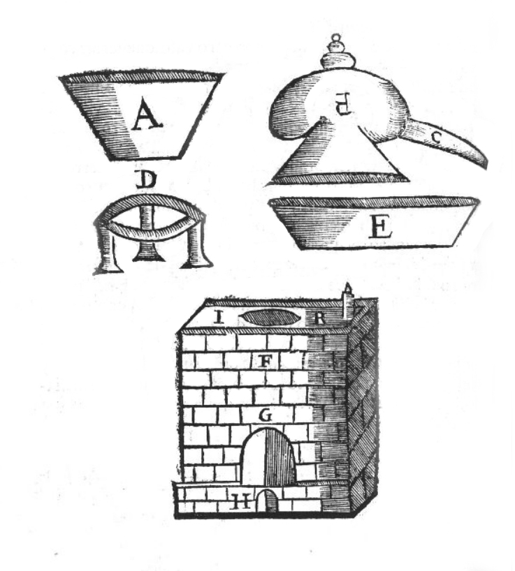 iron bottom; B, still head; C still nose; D, Trébede; E, container with water to collect the mercury; F, oven; G, fire door; H, door to take out the ash; I, upper opening where the bottom comes out and joins the still; K, chimney.